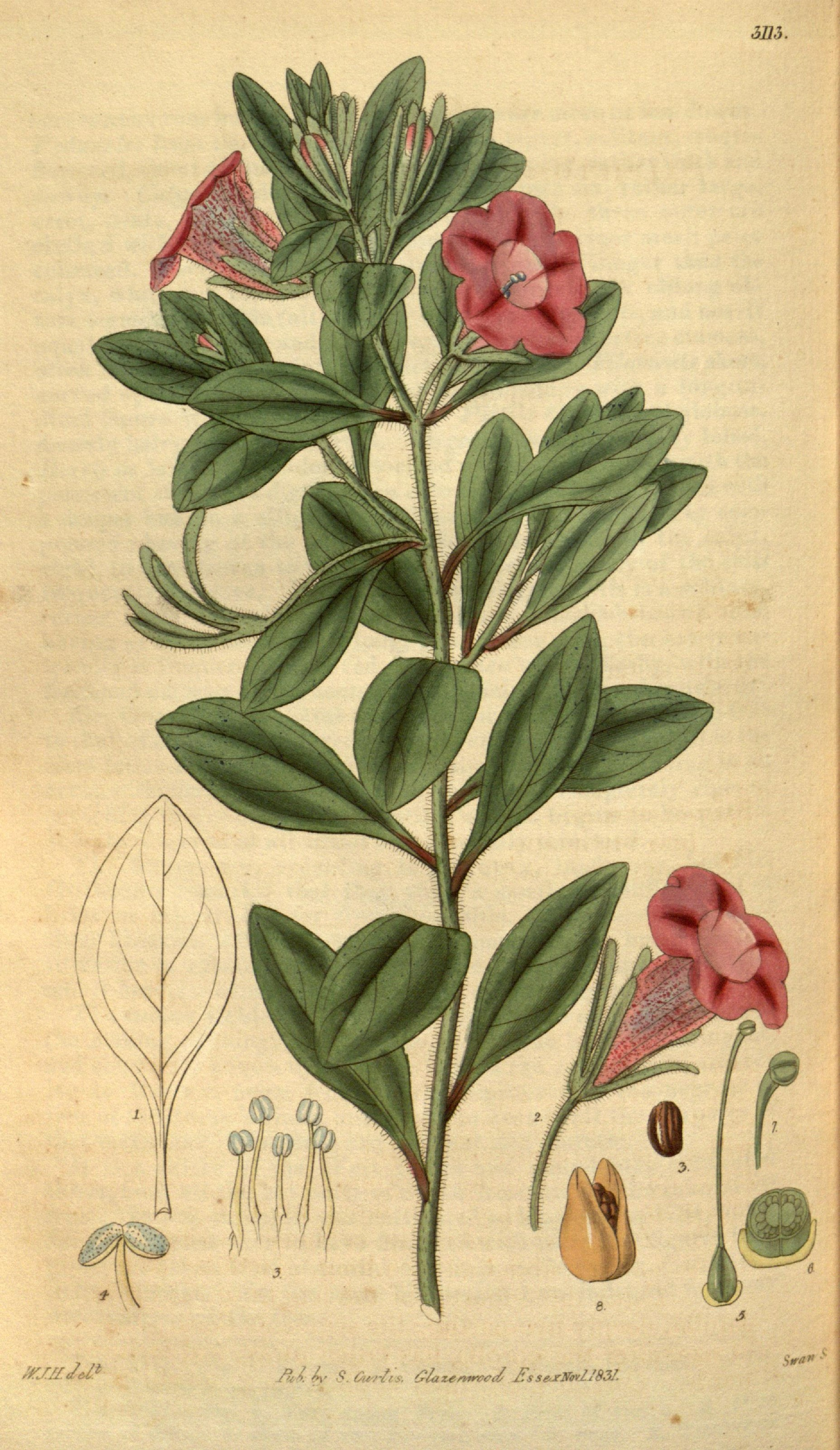 3113. Salpiglossis integrifolia. 1. Root leaf, nat. size. 2. Flower. 3. Stamen. 4. Anther burst. 5. Pistil. 6. Section of the Germen. 7. Summit of the Style and Stigma. 8. Capsule. 9. Seed:-more or less magnified.